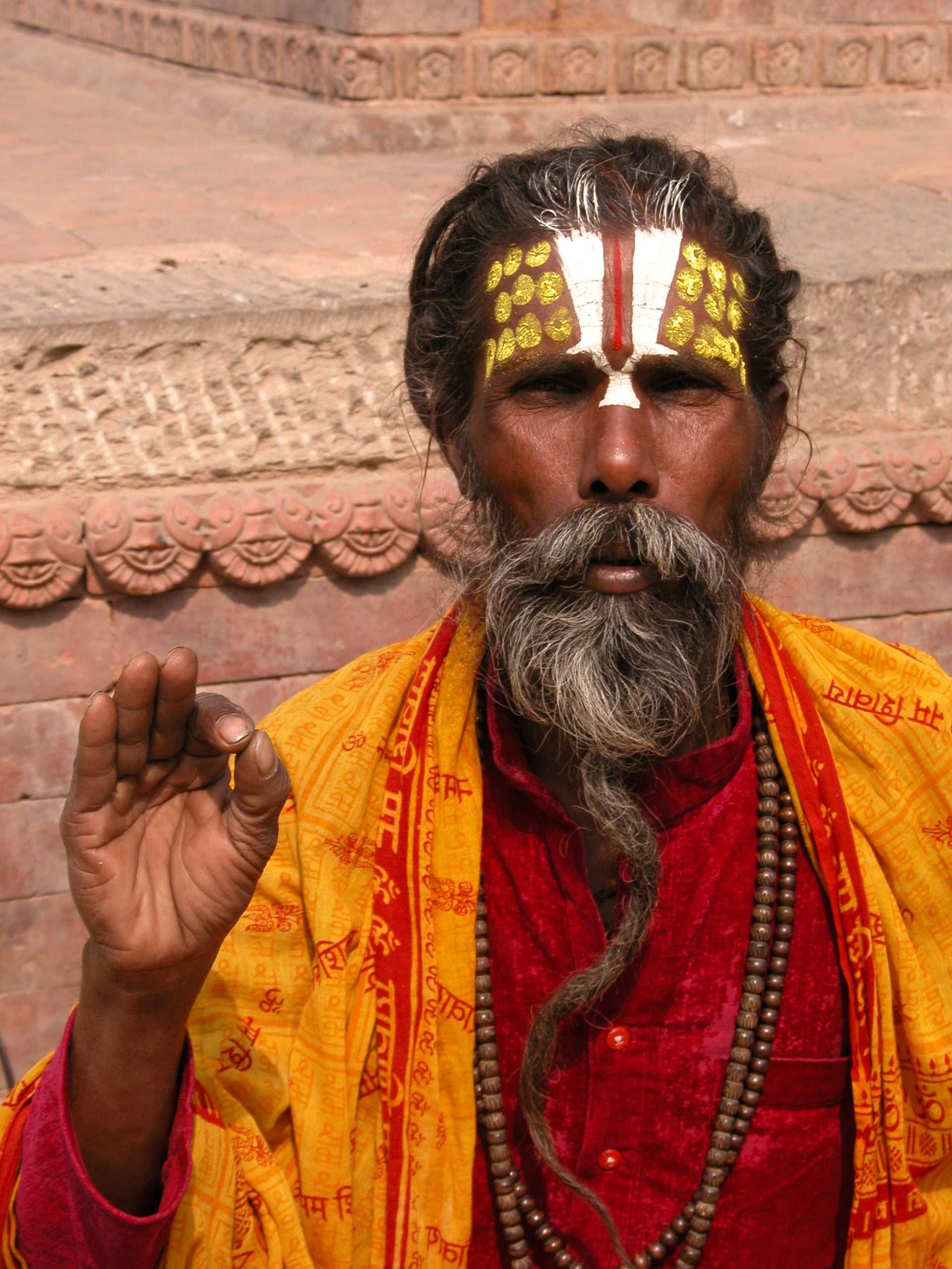 Nepali sadhu performing a blessing.